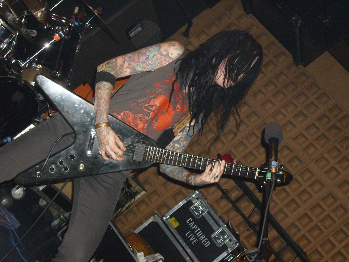 Stevie Floyd from Dark Castle @ Sala Ritmo y Compás.